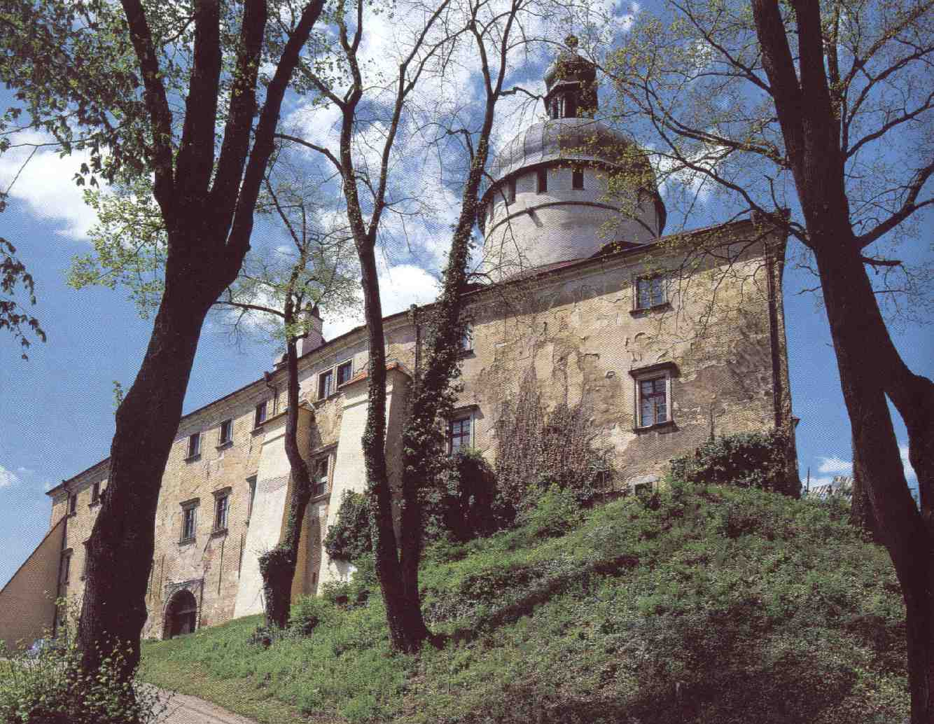 Grabštejn Castle - a view from the northeast.